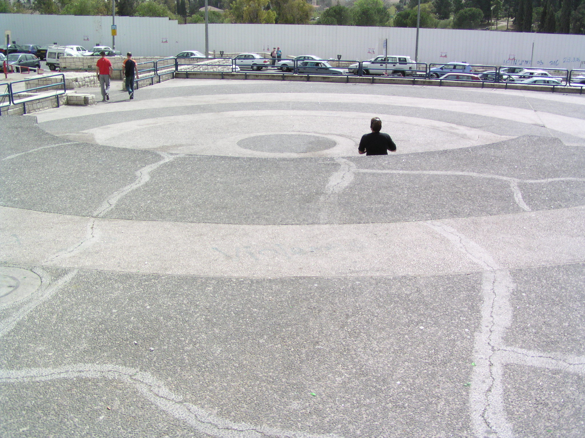 Khatulot Square, Jerusalem, Israel. (This name, translating as "Cats Square", is a colloquial name, the offical name is "Maccabi Motsri Square".) The white Palisade hides the Jerusalem's Museum of Tolerance Construction site (Center for Human Dignity).